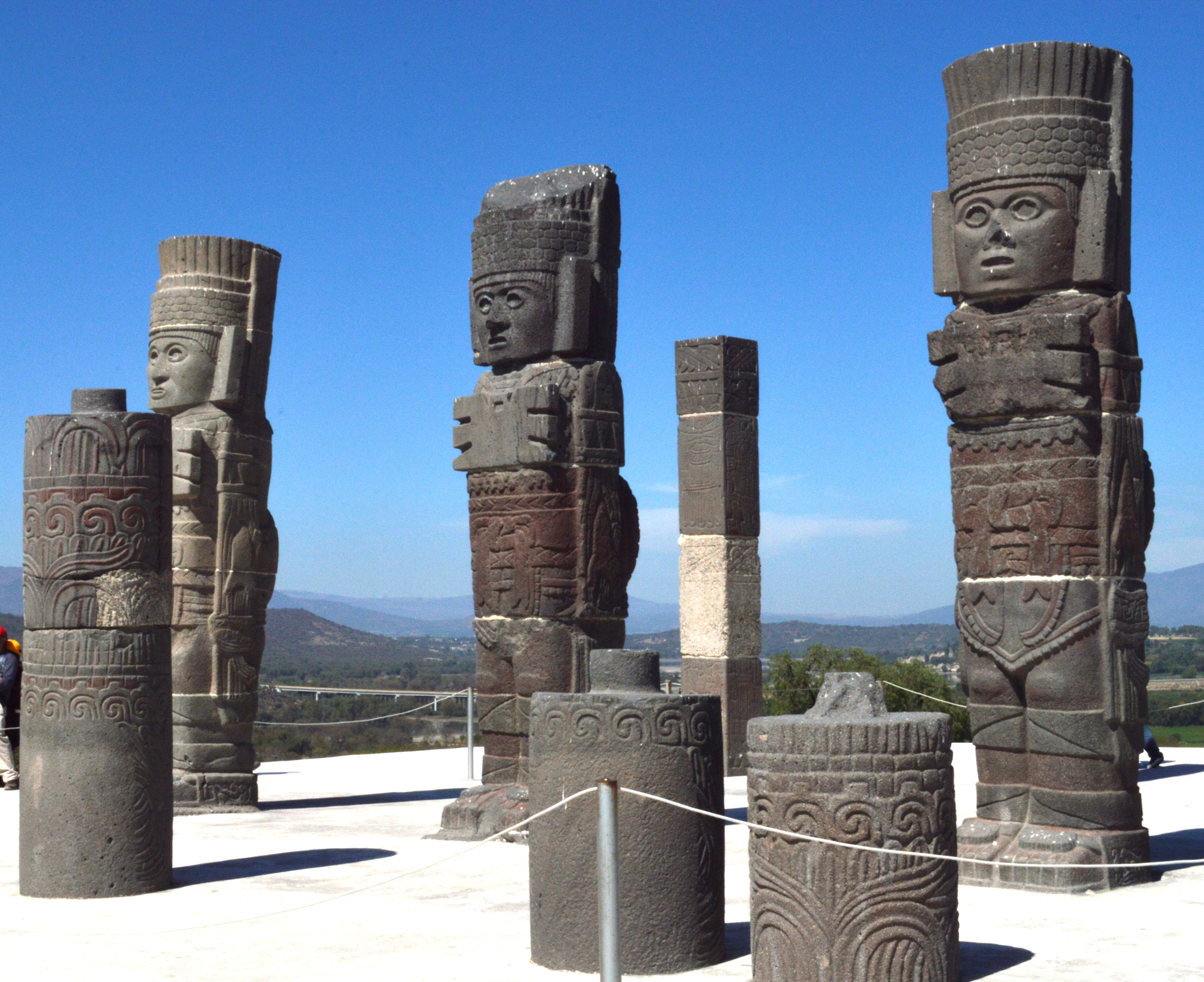 Atlantes of Pyramid B at the Tula archeological site in Hidalgo, Mexico